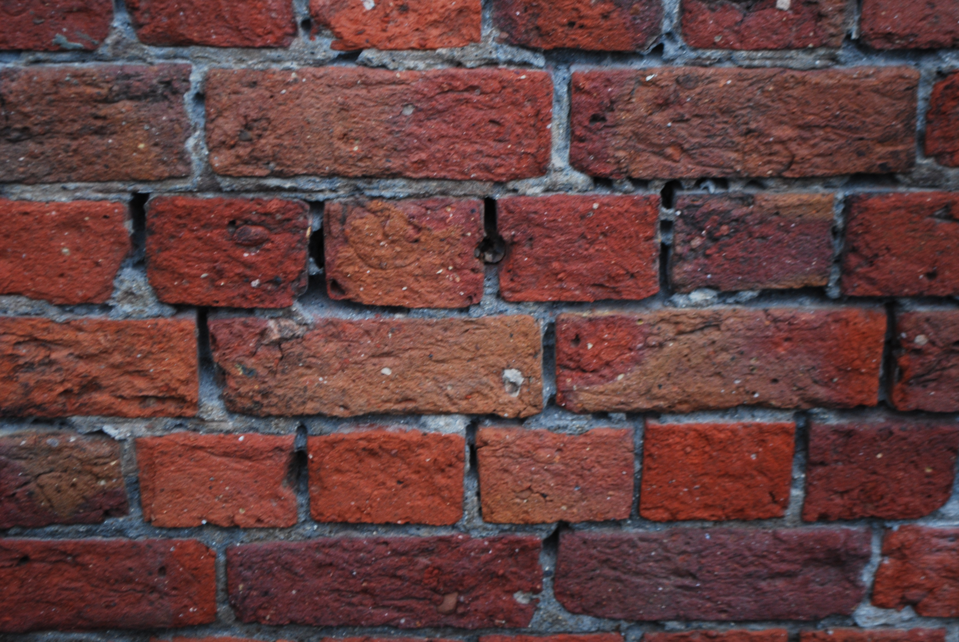 Albert Dock Bricks